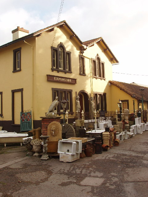 The former Exminster Station, now Tobys Architectural Antiques